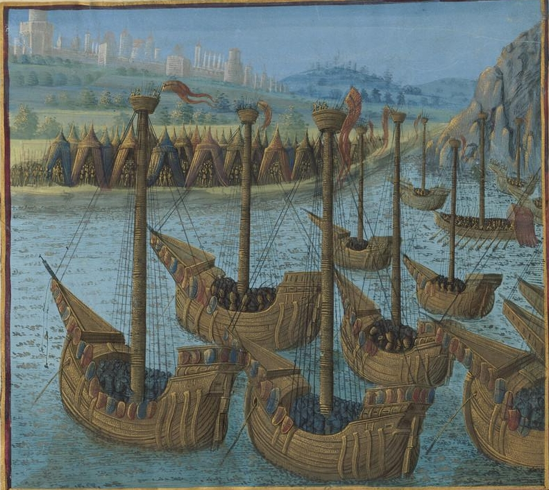 Miniature: Crusader fleet at Constantinople